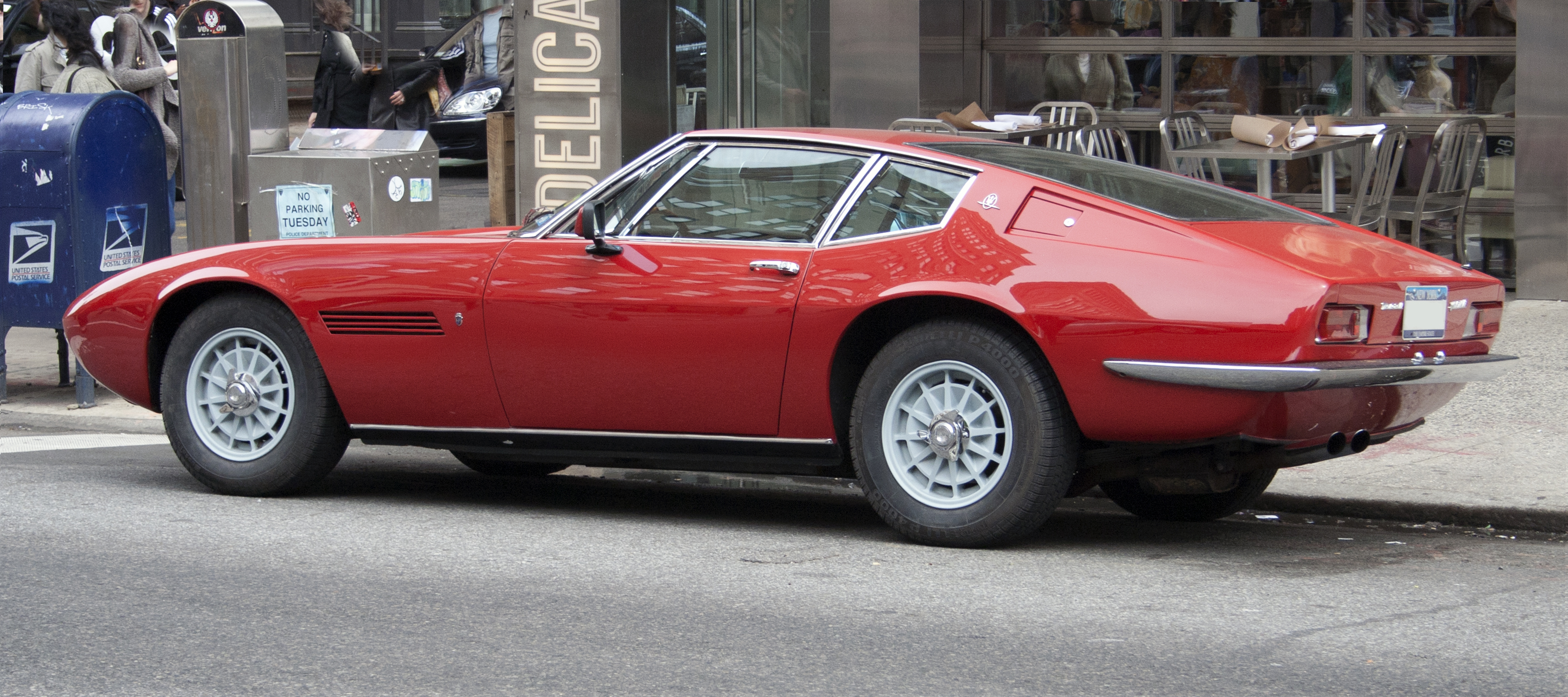 1967 Maserati Ghibli in SoHo, belonging to the very dedicated Olivier Renaud-Clément.